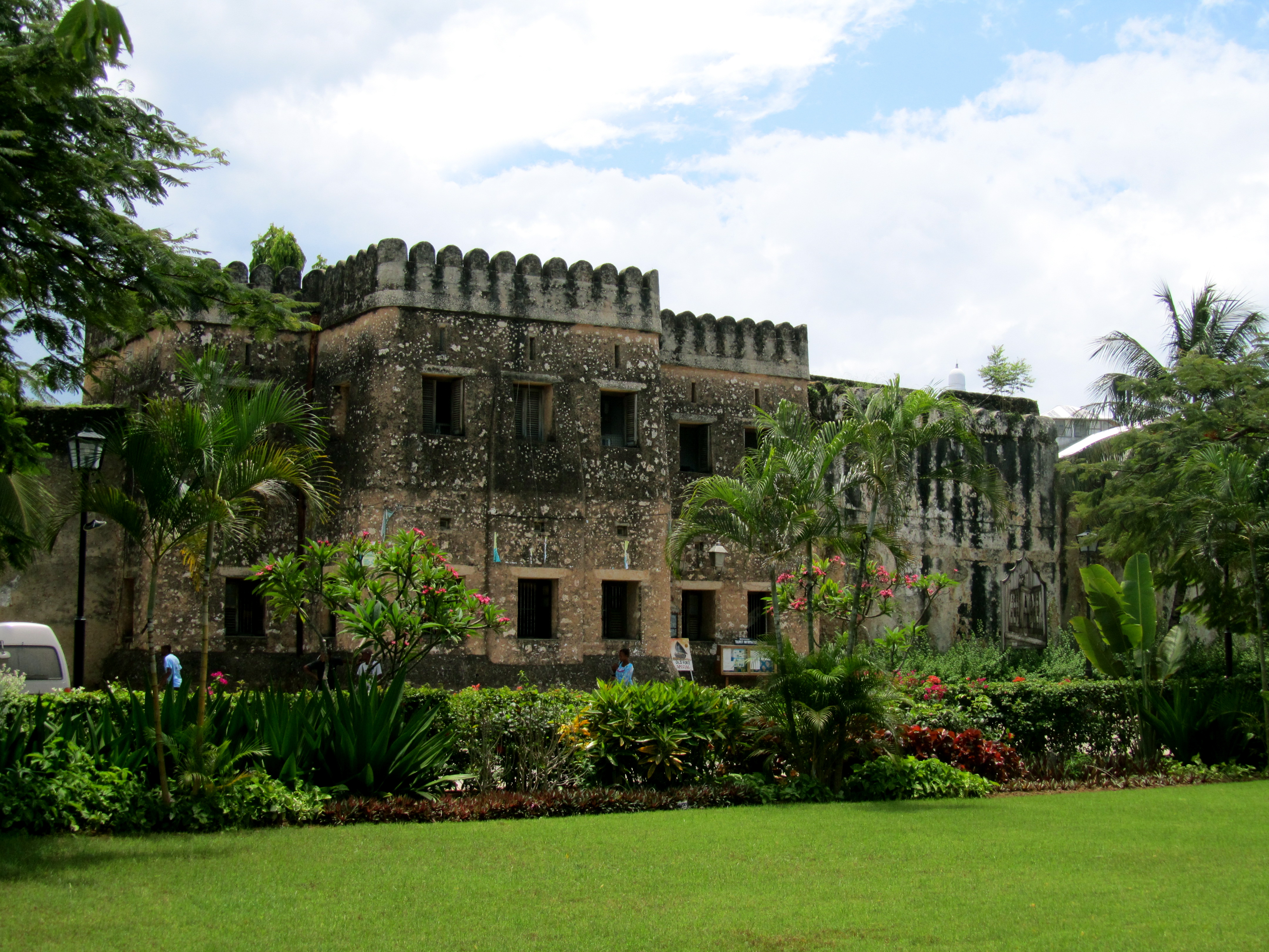 Old Fort of Zanzibar